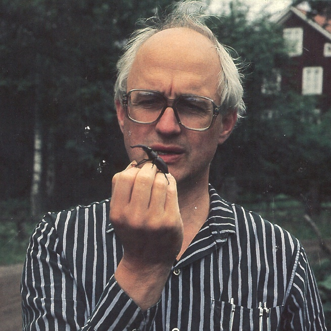 Photo of Nils-Erik Landell from 1986, holding a stag beetle.